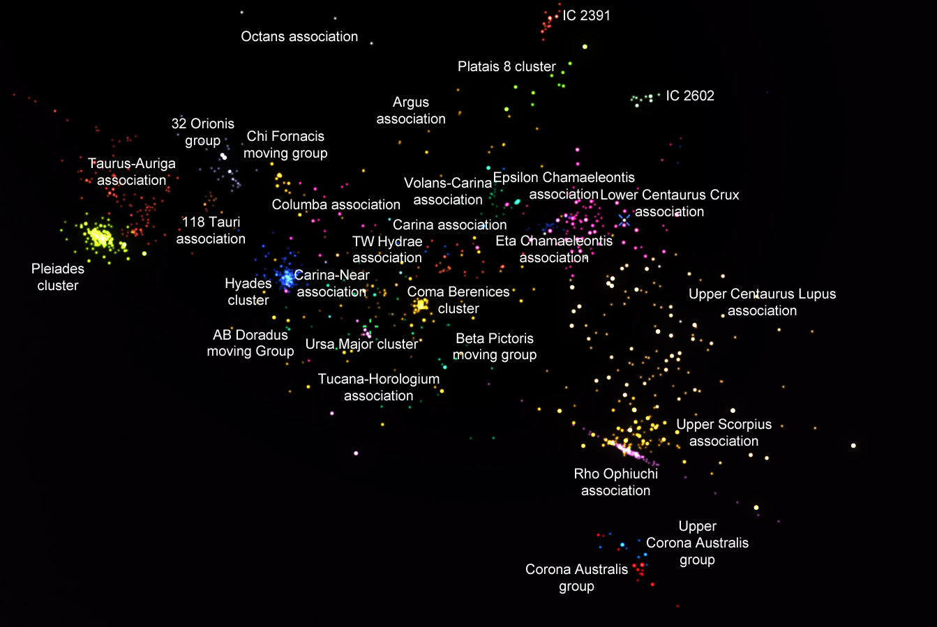 This image shows nearby stellar associations and moving groups.The positions are adapted from BANYAN. XI., as well as Gagné et al. 2018 and Zuckerman 2019. The positions were crossmatched with Gaia. The software Gaia Sky was used to create this image.The following images show individual groups: Ursa Major association and Volans-Carina association TW Hydrae association, AB Doradus moving Group and Beta Pictoris moving Group Taurus-Auriga association, 32 Orionis group, Lower Centaurus Crux, Upper Centaurus Lupus, Upper Scorpius and the Rho Ophiuchi association Tucana-Horologium association, Columba association and Carina association IC 2602, Platais 8 clusters and the Epsilon Chamaelentis, Eta Chamaeleantis, Octans, 118 Tauri and Carina-Near association, as well as the Chi Fornacis moving group Hyades, the Pleiades and the Coma Berenices clusters Corona Australis groups Argus association and IC 2391